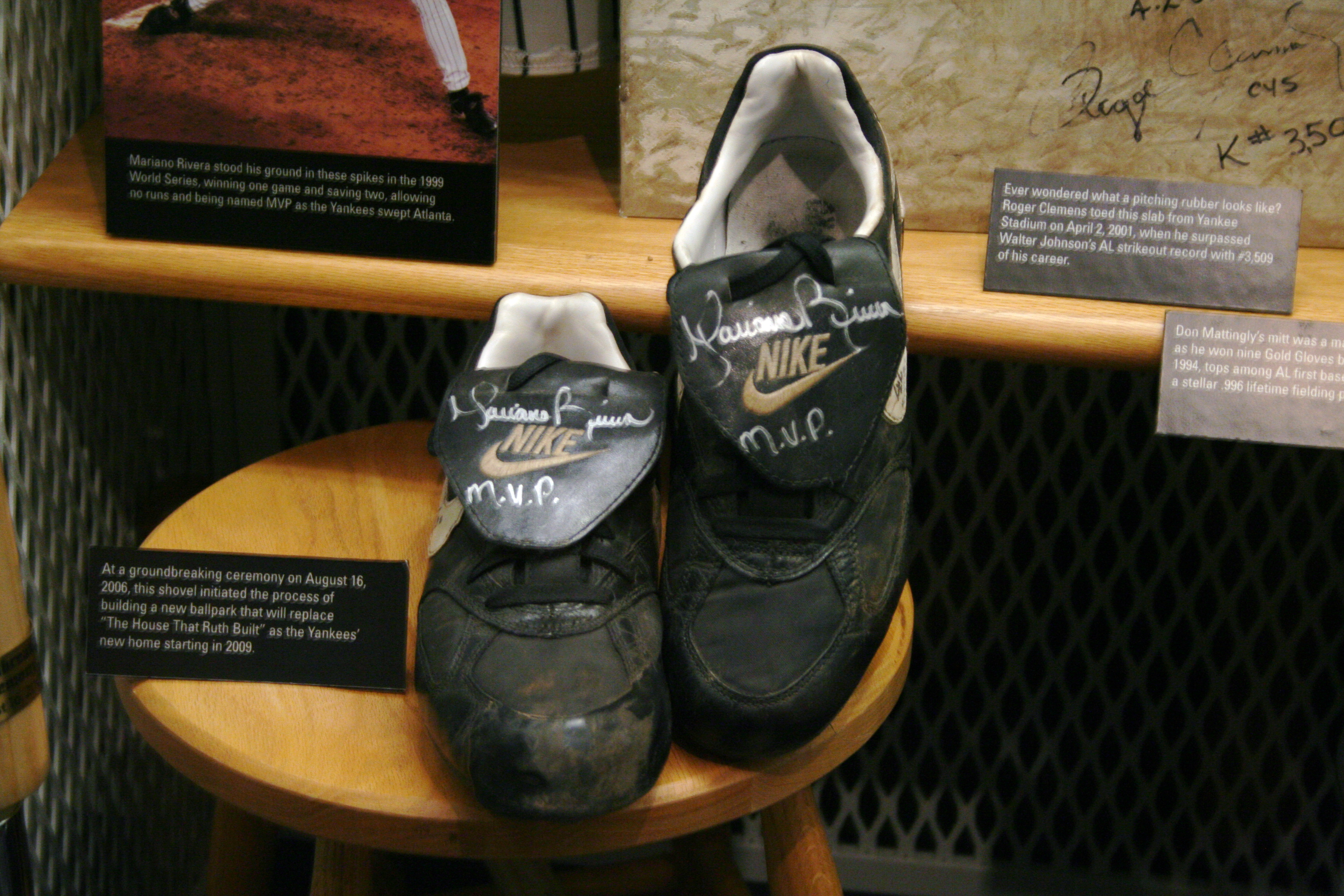 The baseball cleats worn by New York Yankees reliever Mariano Rivera in the 1999 World Series, on display in the National Baseball Hall of Fame and Museum